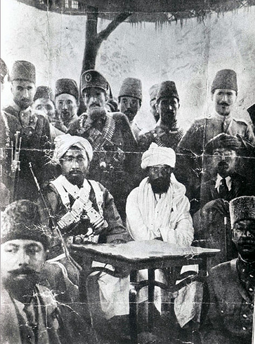 Habibullāh Kalakāni King of Afghanistan